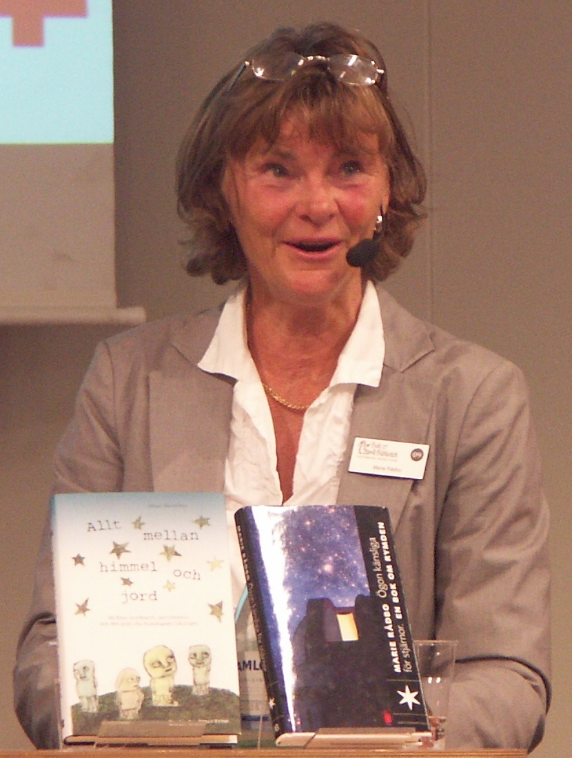 Swedish astronomer Marie Rådbo at the 2009 Göteborg Book Fair.